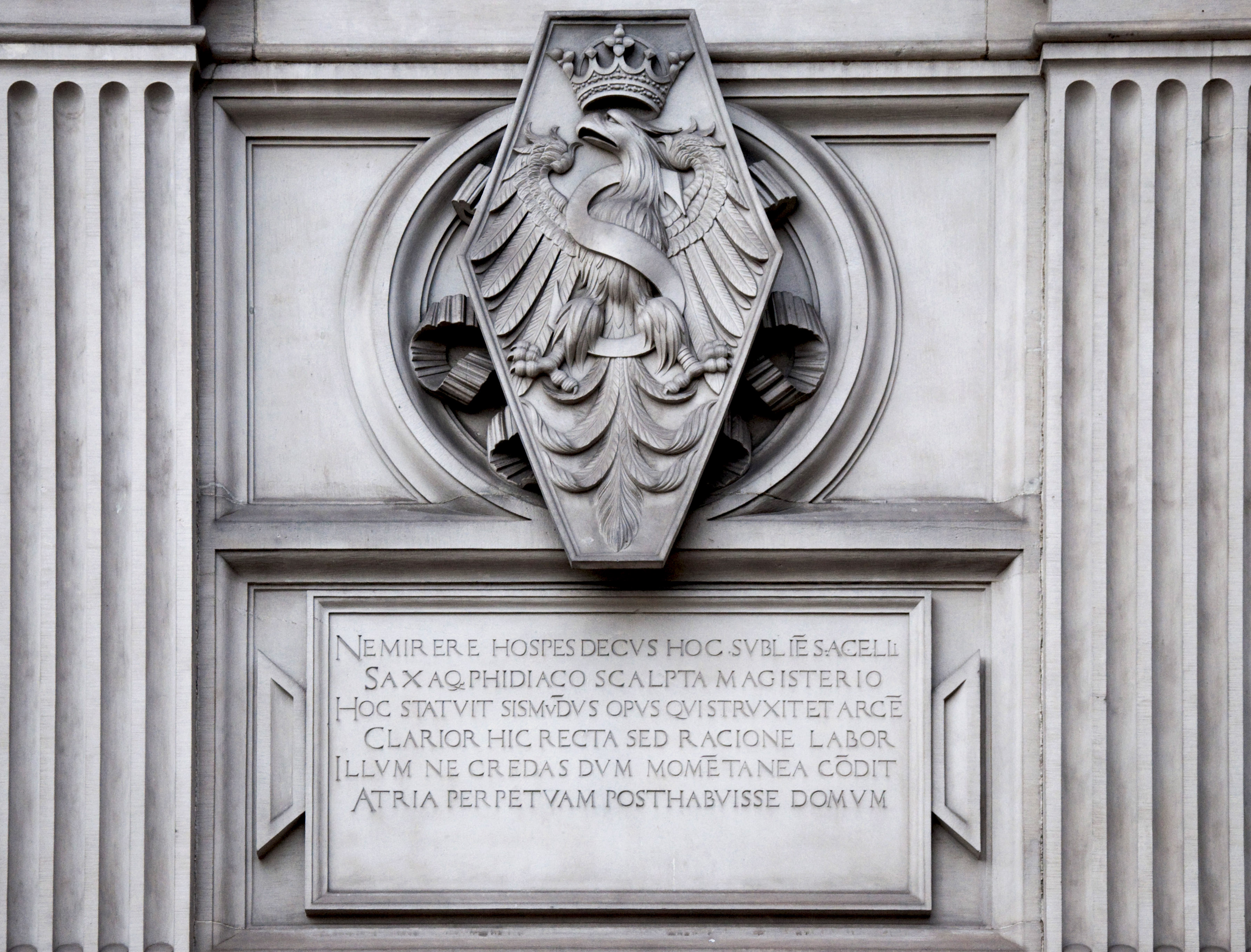 Dedication of Sigismund's Chapel, Wawel Cathedral, Kraków